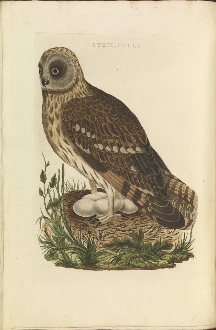 Plate 34 from the Nederlandsche vogelen by Nozeman and Sepp.